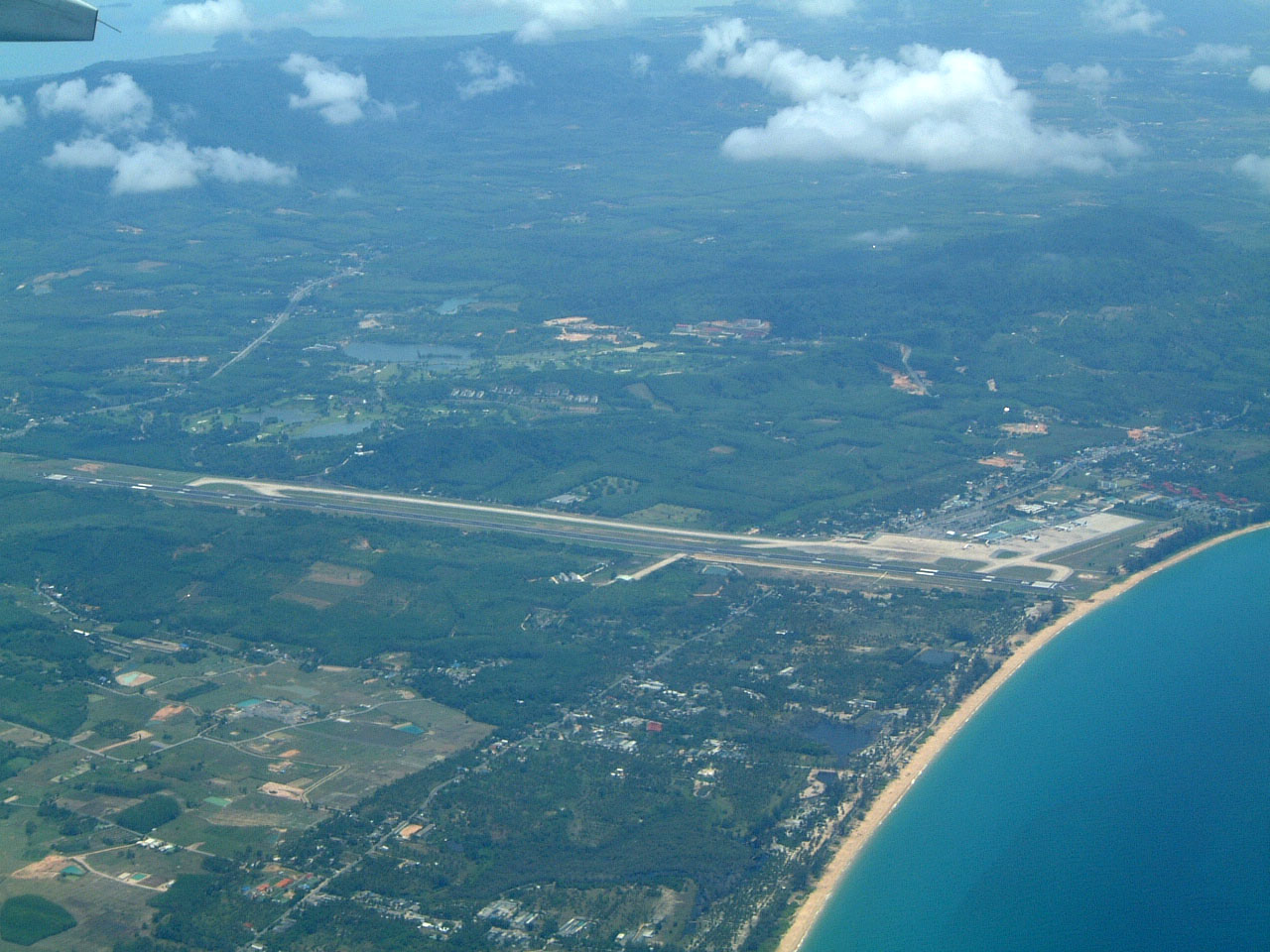 Aerial view of Phuket International Airport before the Tsunami